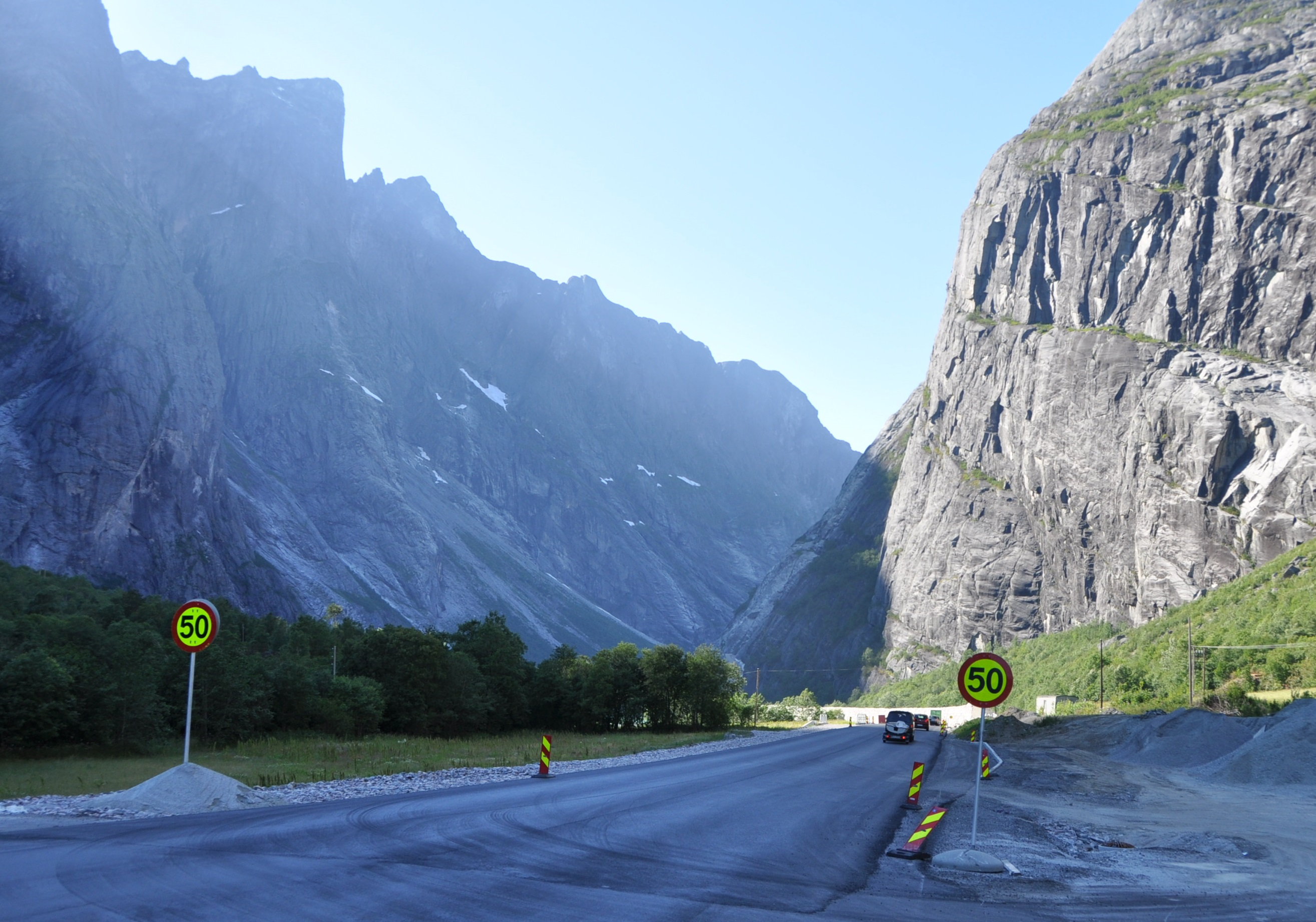 Avalanche protection on road E136 at Horgheim/Romsdalshorn, Romsdalen